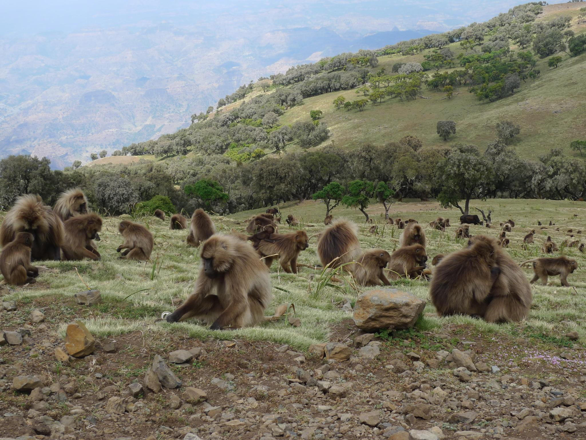 Grazing baboons, at c 3000m in the Semien Mountains.